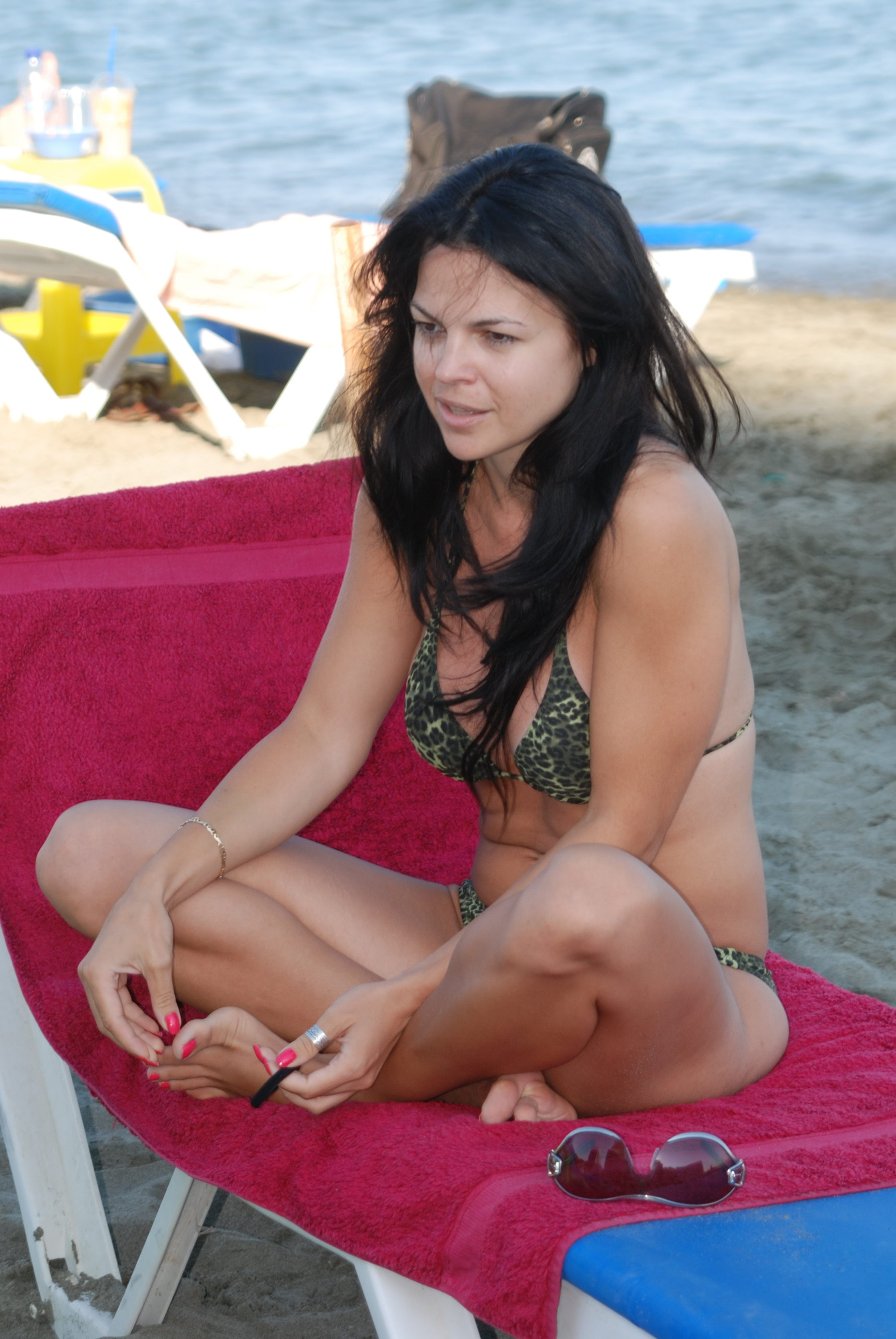 Woman sits cross-legged on a sunbed.